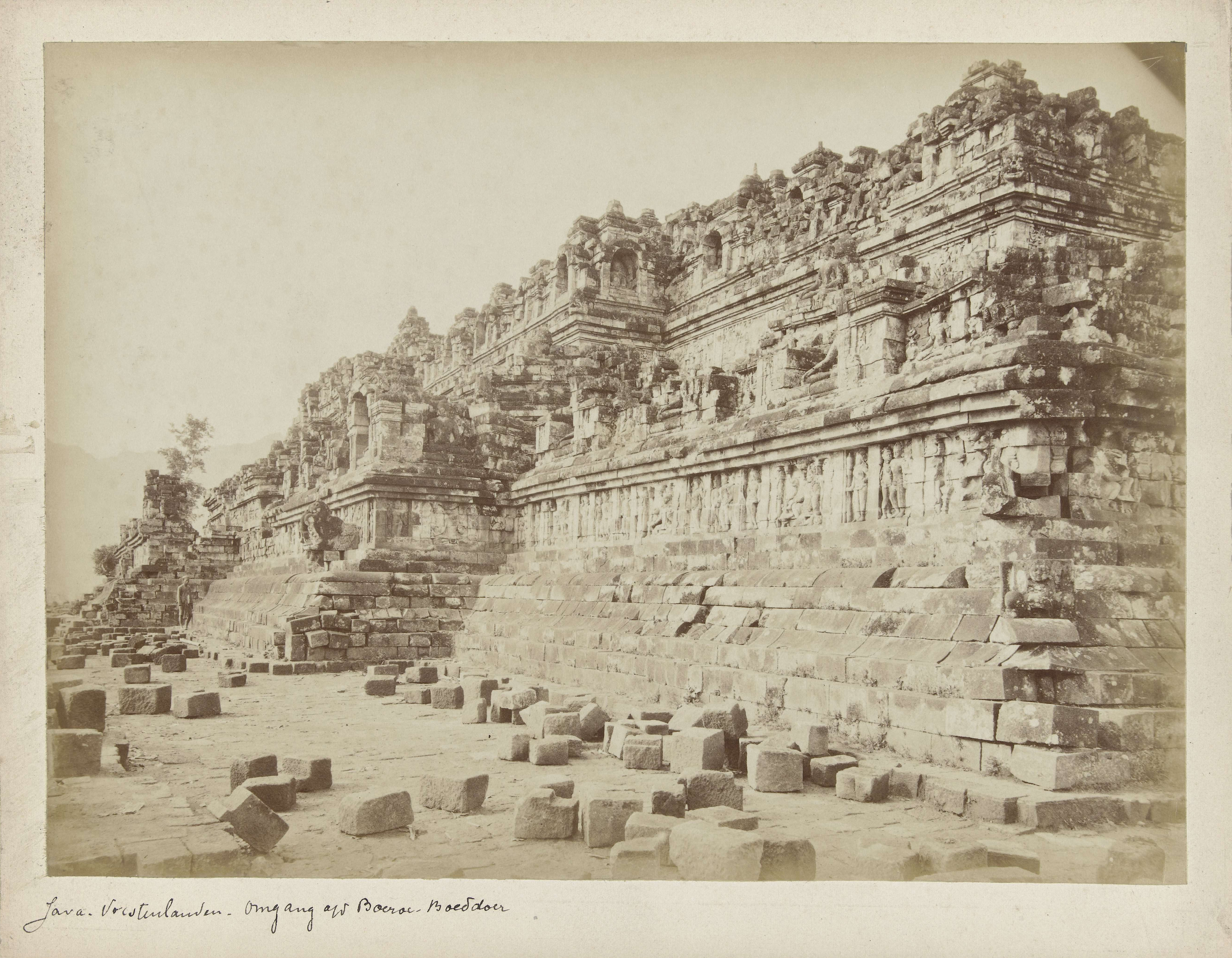 Photograph of Borobudur before its first restoration